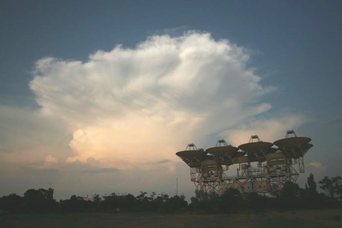 Radio telescope ADU-1000 "Pluto" (8 antennas each 16 metres across)